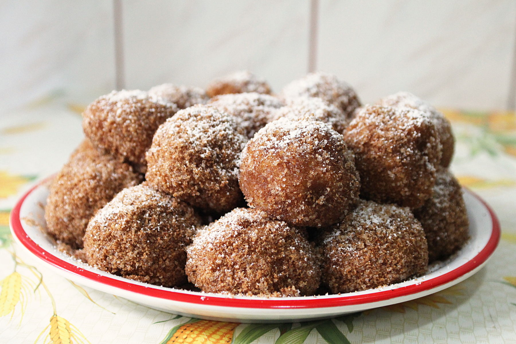 Plum dumplings (gombots) made from a Romanian recipe